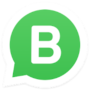 WhatsApp Business icon